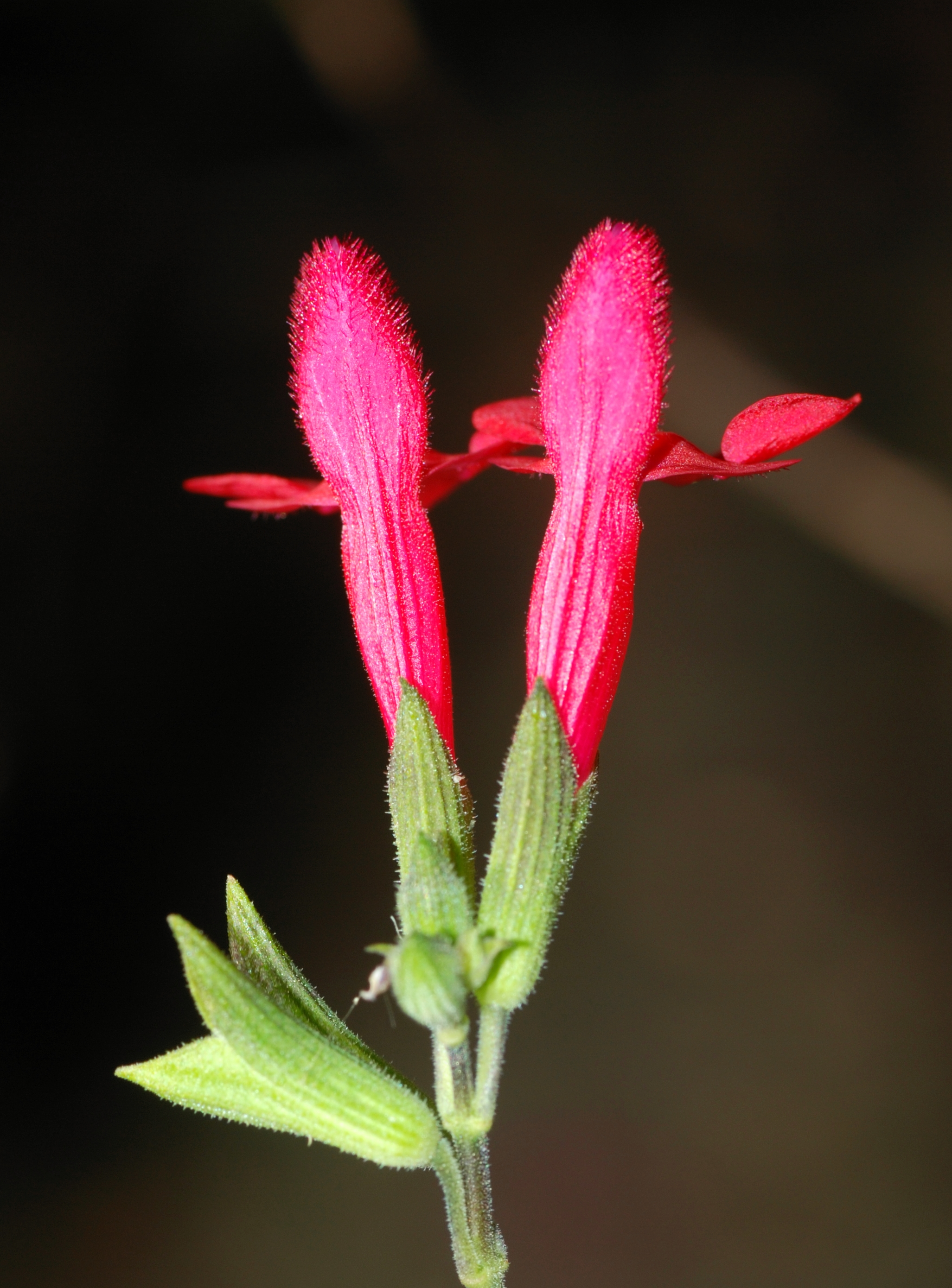 Unknown flower